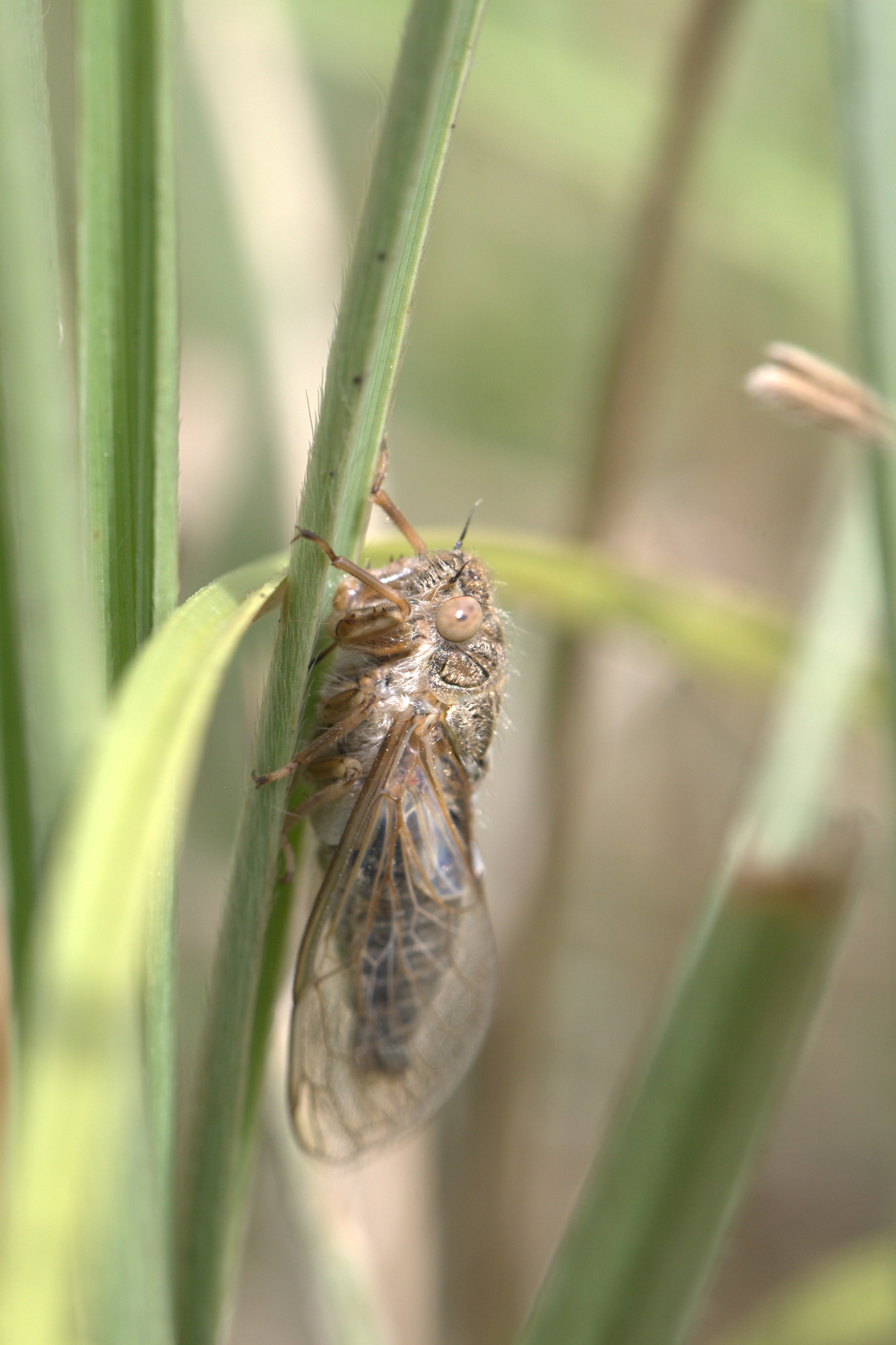 Sylphoides arenaria at Kioloa beach, NSW, Australia.